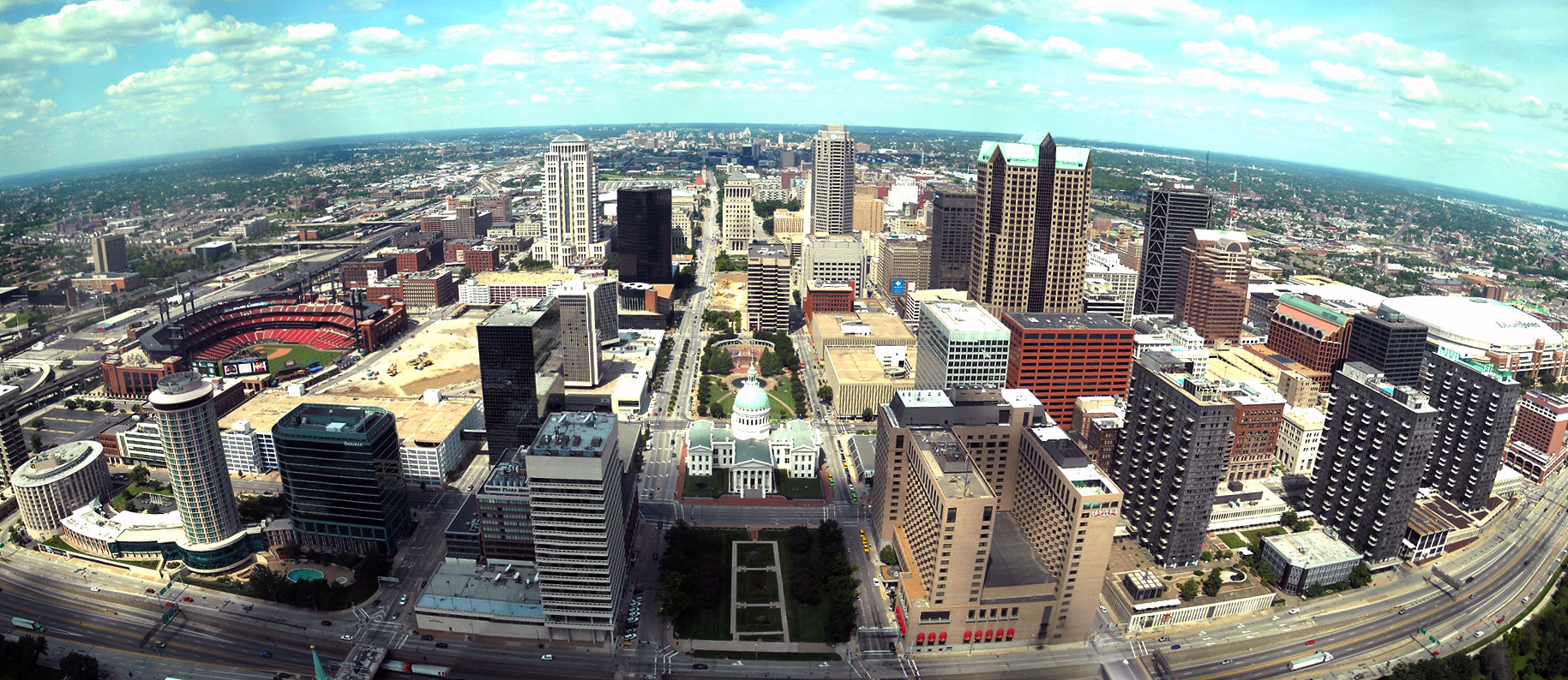 A panorama of downtown Saint Louis as seen from the St. Louis Arch